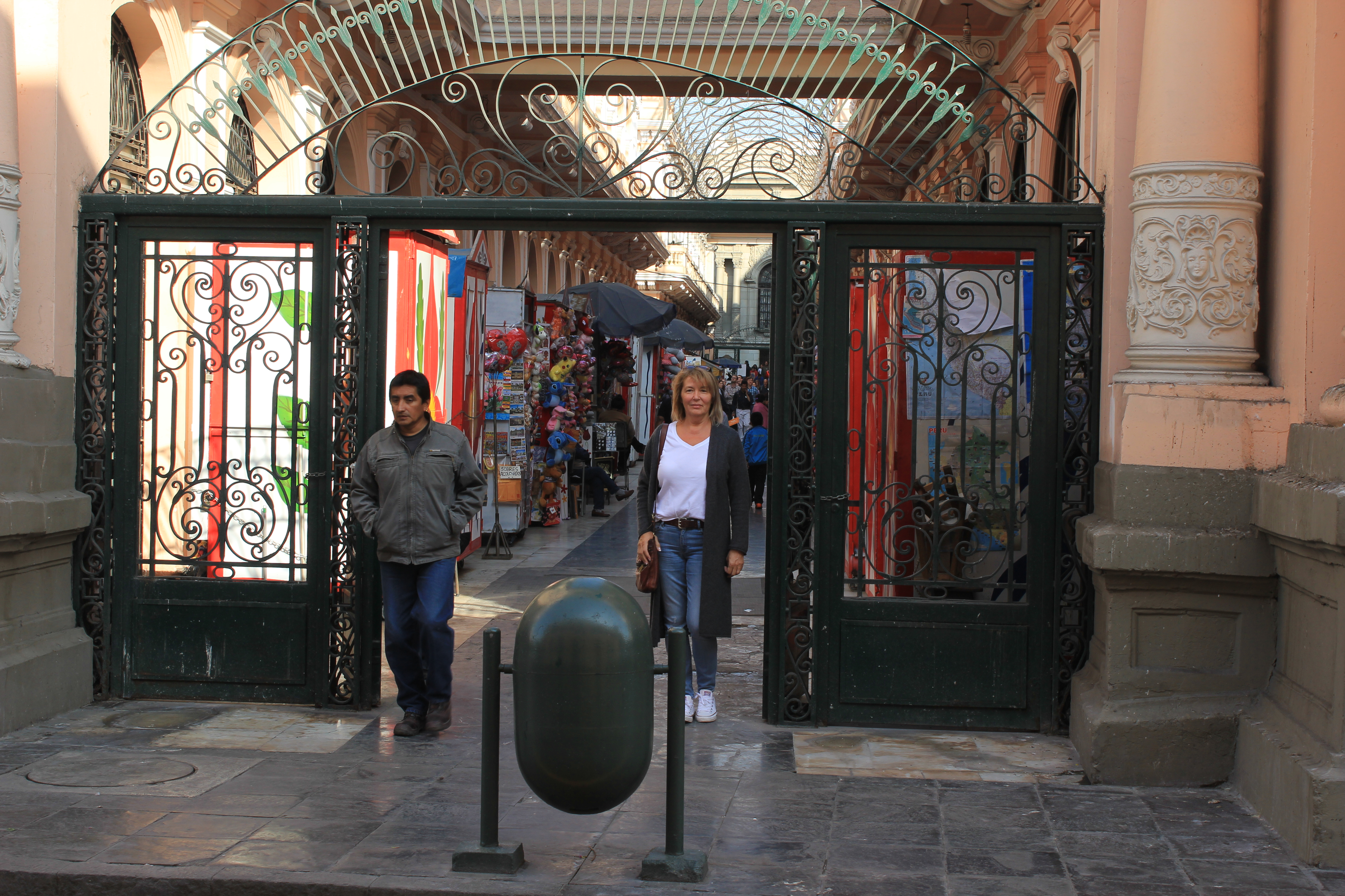 Santo Domingo (Lima), Peru